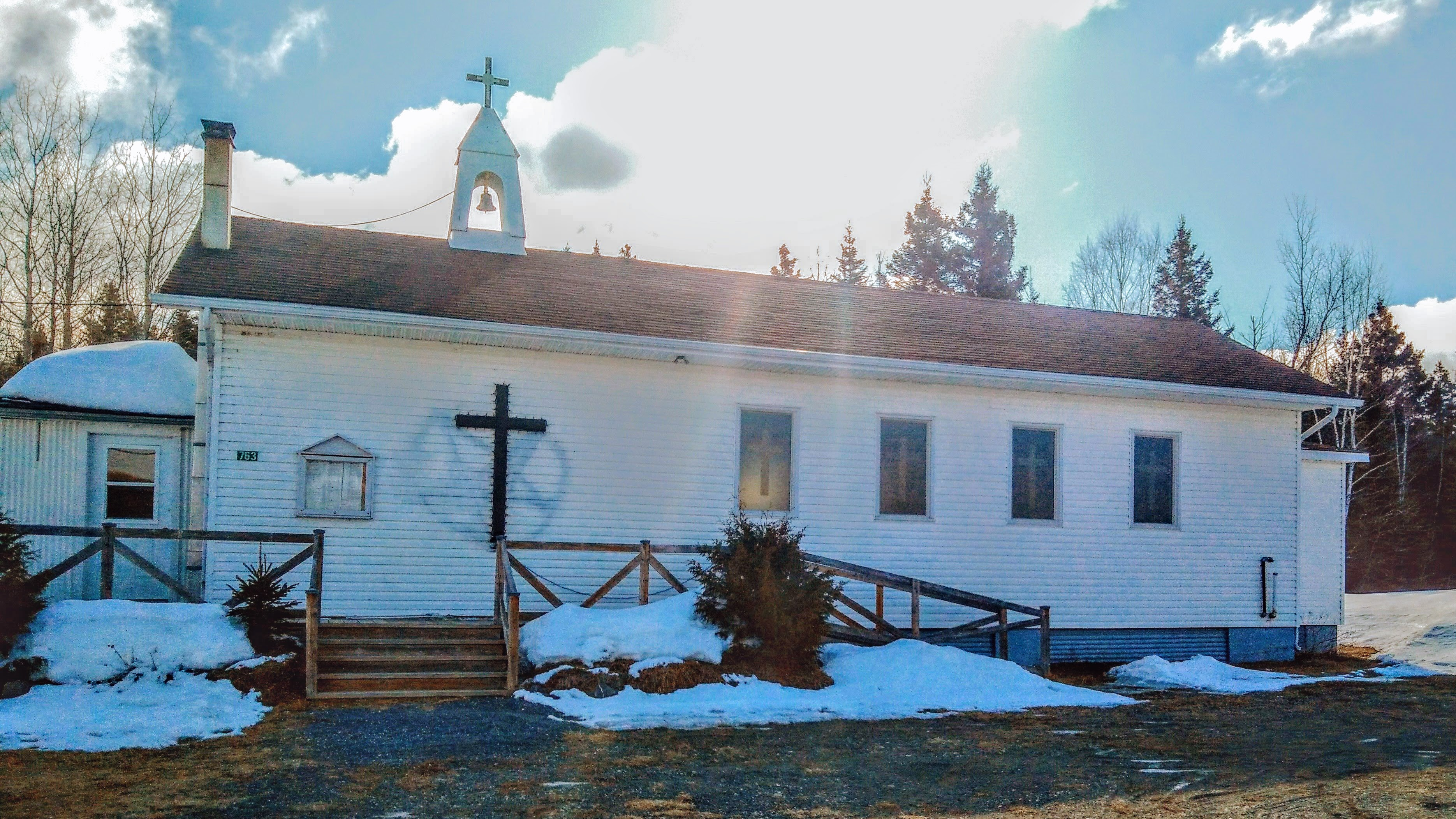 Saint-Bernard-des-Lacs chapel in Cap-Seize, Mont-Albert, Quebec.